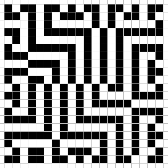 This is a solution for the "maximum density problem" in Conway's Game of Life, for 20x20 square.